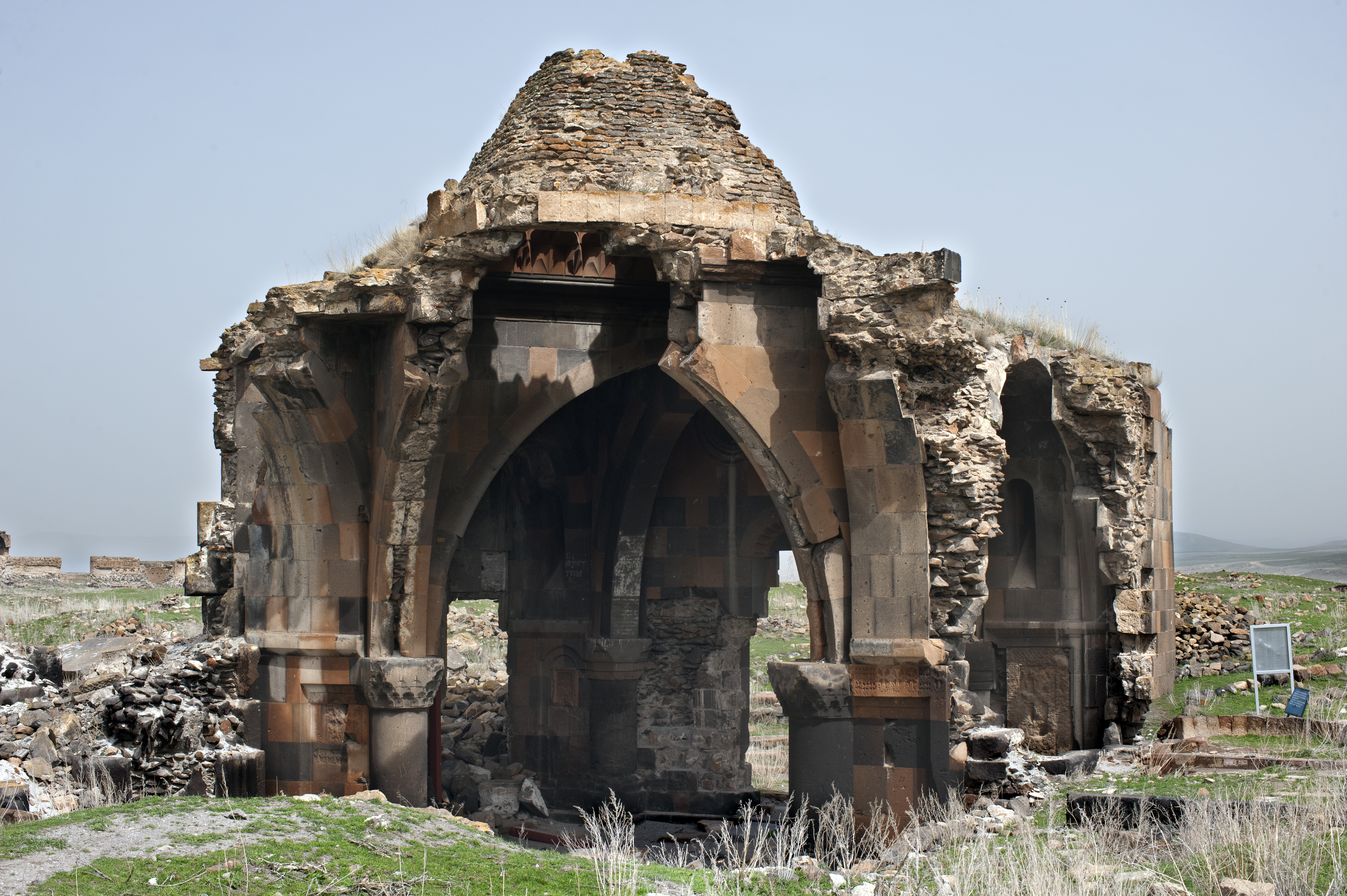 Ruins of Surp Arakelots (Church of the Holy Apostles), Ani, Turkey.